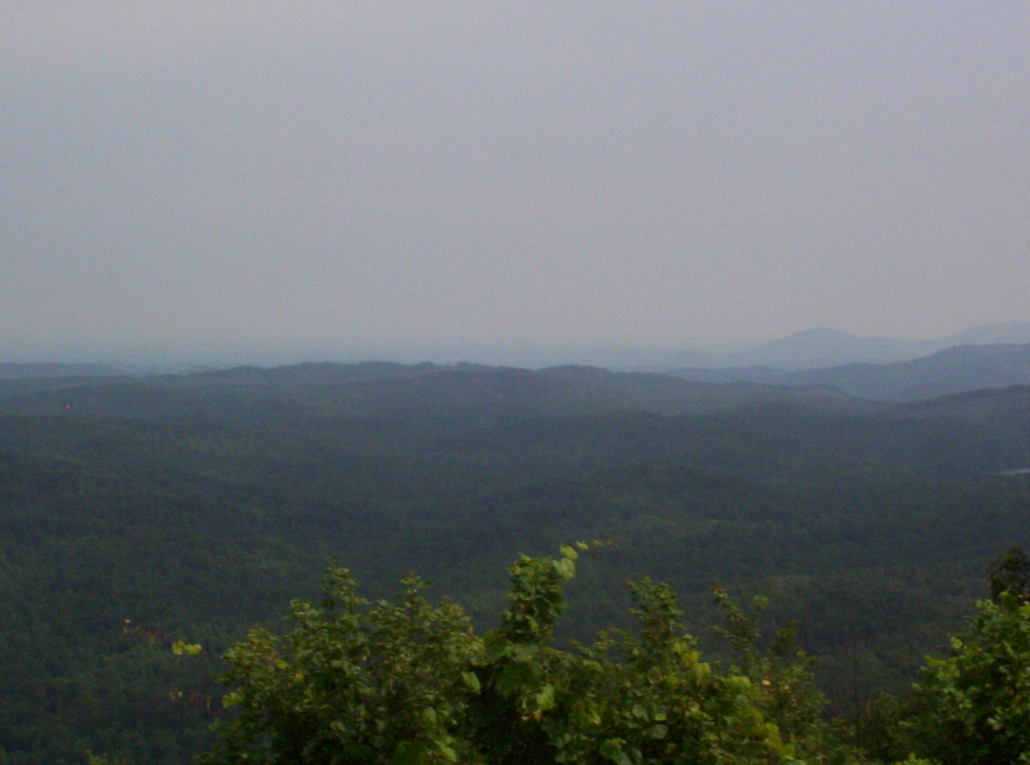 View along the Cherohala Skyway. Taken July 6, 2006 Terrill White